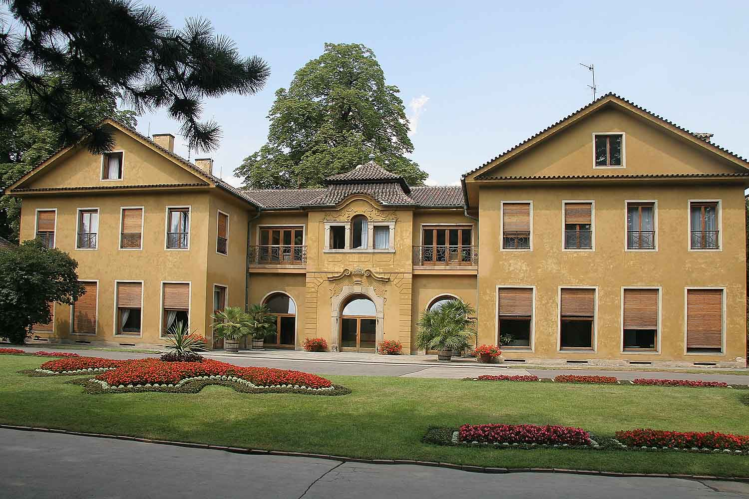 Beneš' villa in the Royal gardens of Prague Castle